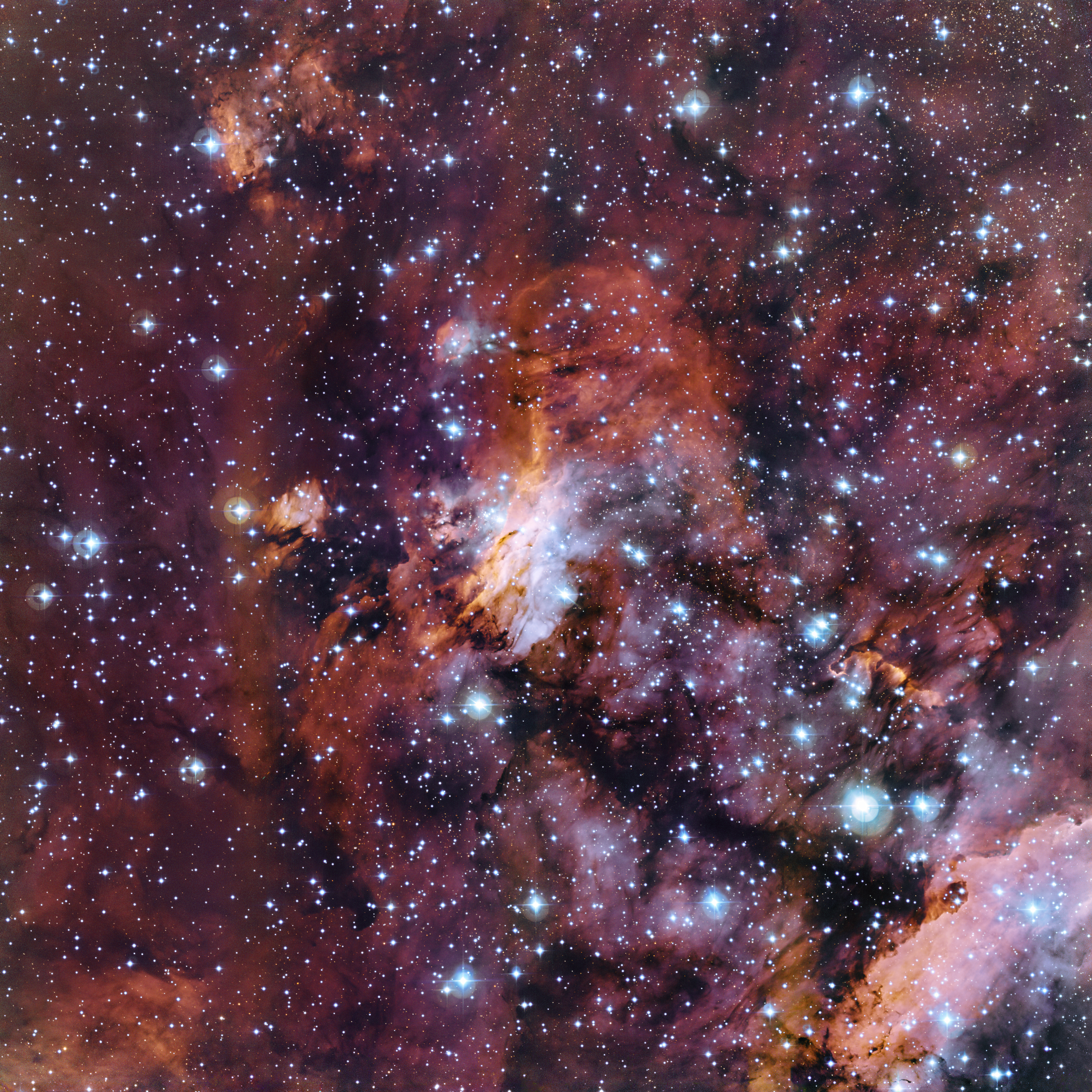 The rich patchwork of gas clouds in this new image make up part of a huge stellar nursery nicknamed the Prawn Nebula (also known as Gum 56 and IC 4628). Taken using the MPG/ESO 2.2-metre telescope at the La Silla Observatory in Chile, this may well be one of the best pictures ever taken of this object. It shows clumps of hot new-born stars nestled in among the clouds that make up the nebula.